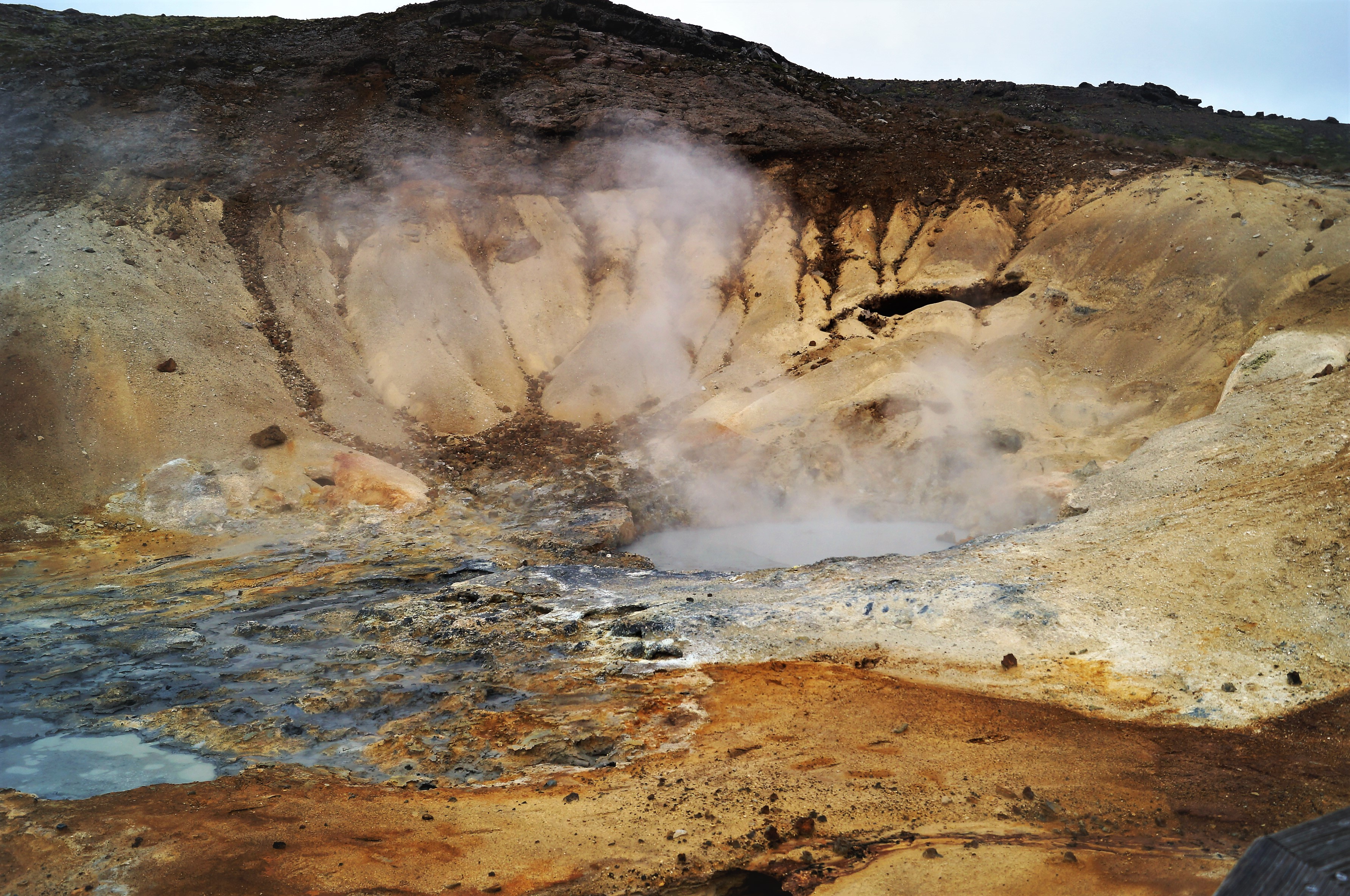 Mineral deposits, mud and hot gases at Krýsuvík-Seltún geothermal field on 2019-07-08